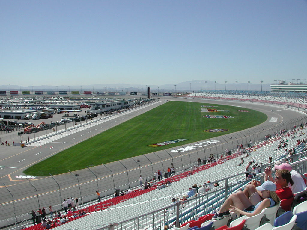 Nascar, Las Vegas, Qualifying Day - a somewhat hazy view towards the Las Vegas stripnascarvegas03